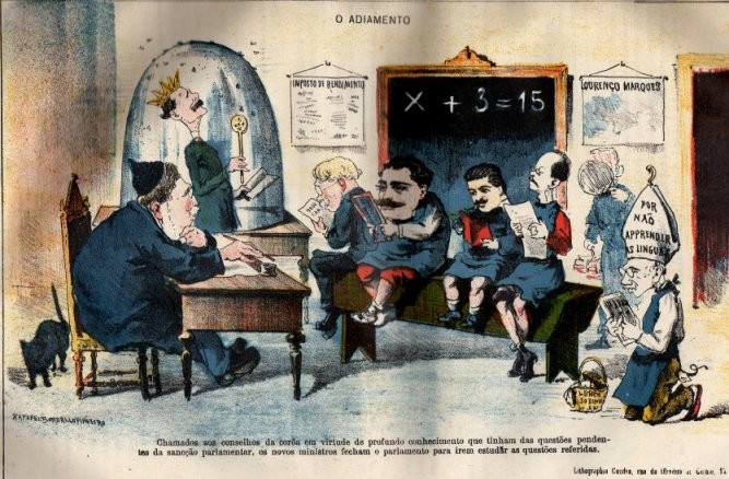 The government of António Rodrigues Sampaio (1806-1882) in a caricature of Rafael Bordalo Pinheiro.